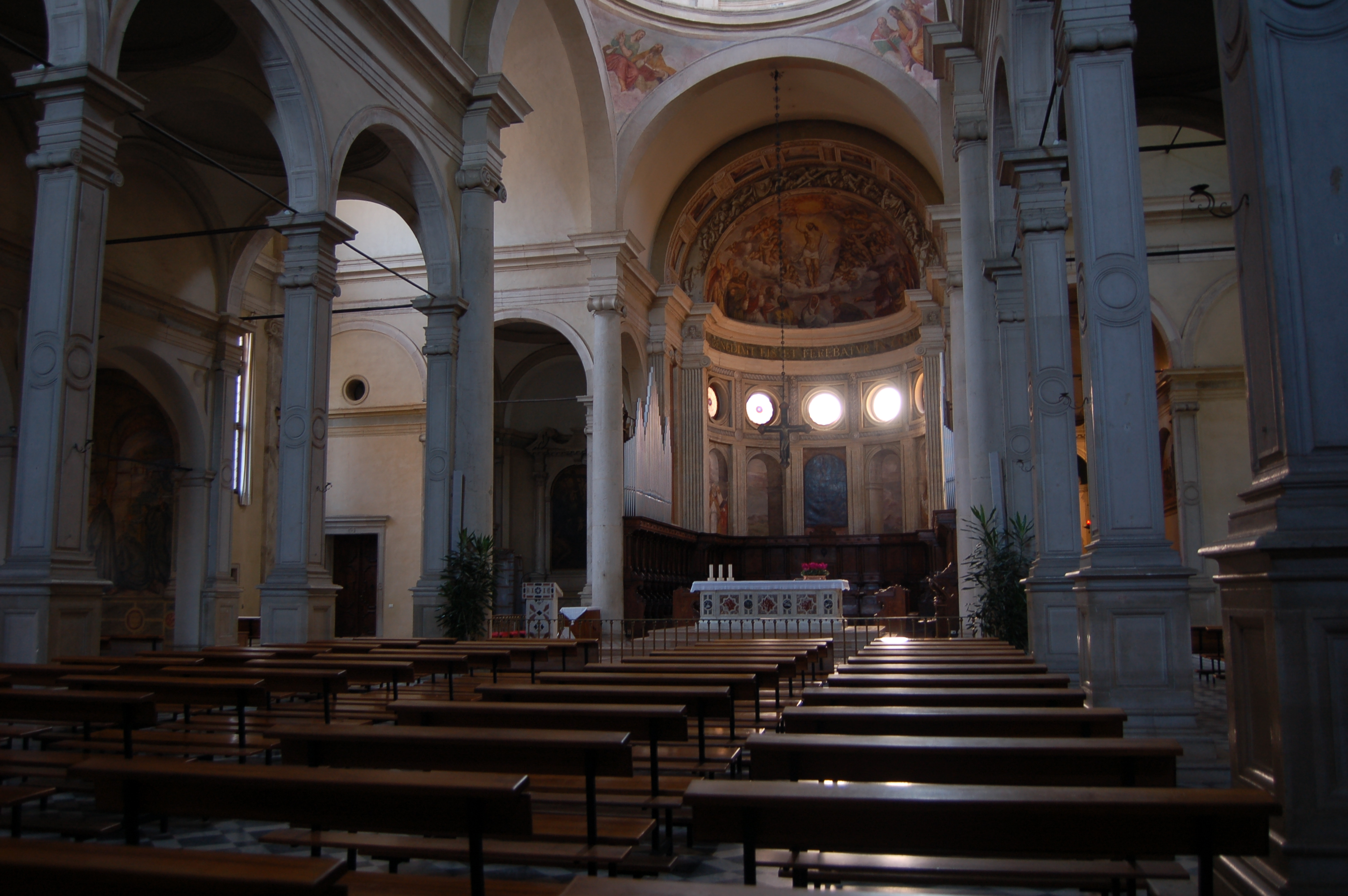 Interior of Abbazia di Praglia (Praglia Abbey) church, Padova Province, Italy